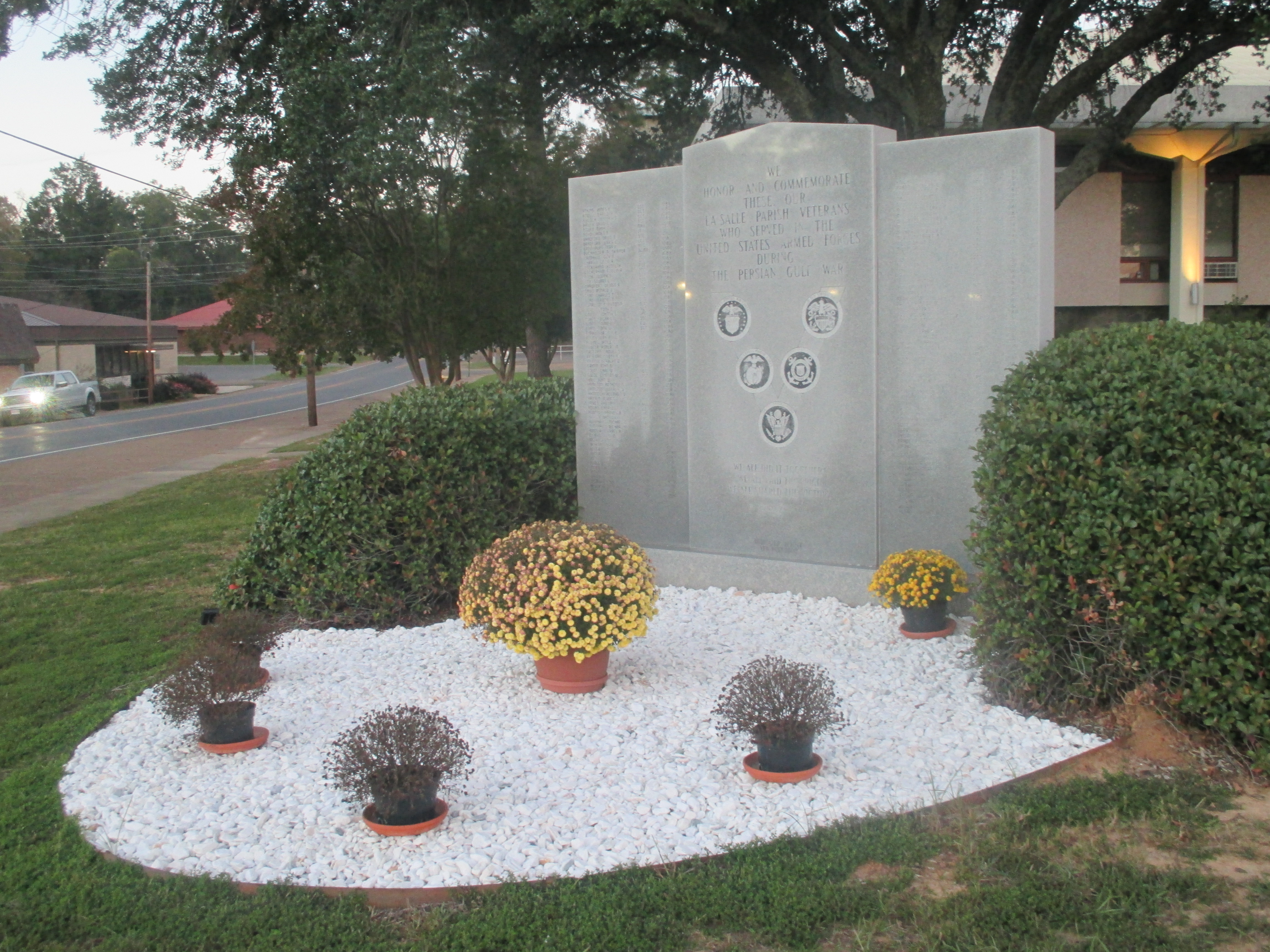 I took photo with Canon camera of Veterans Monument in Jena, LA.